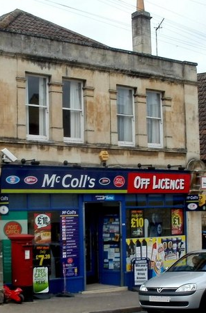 Post offce and McColl's, Larkhall, Bath